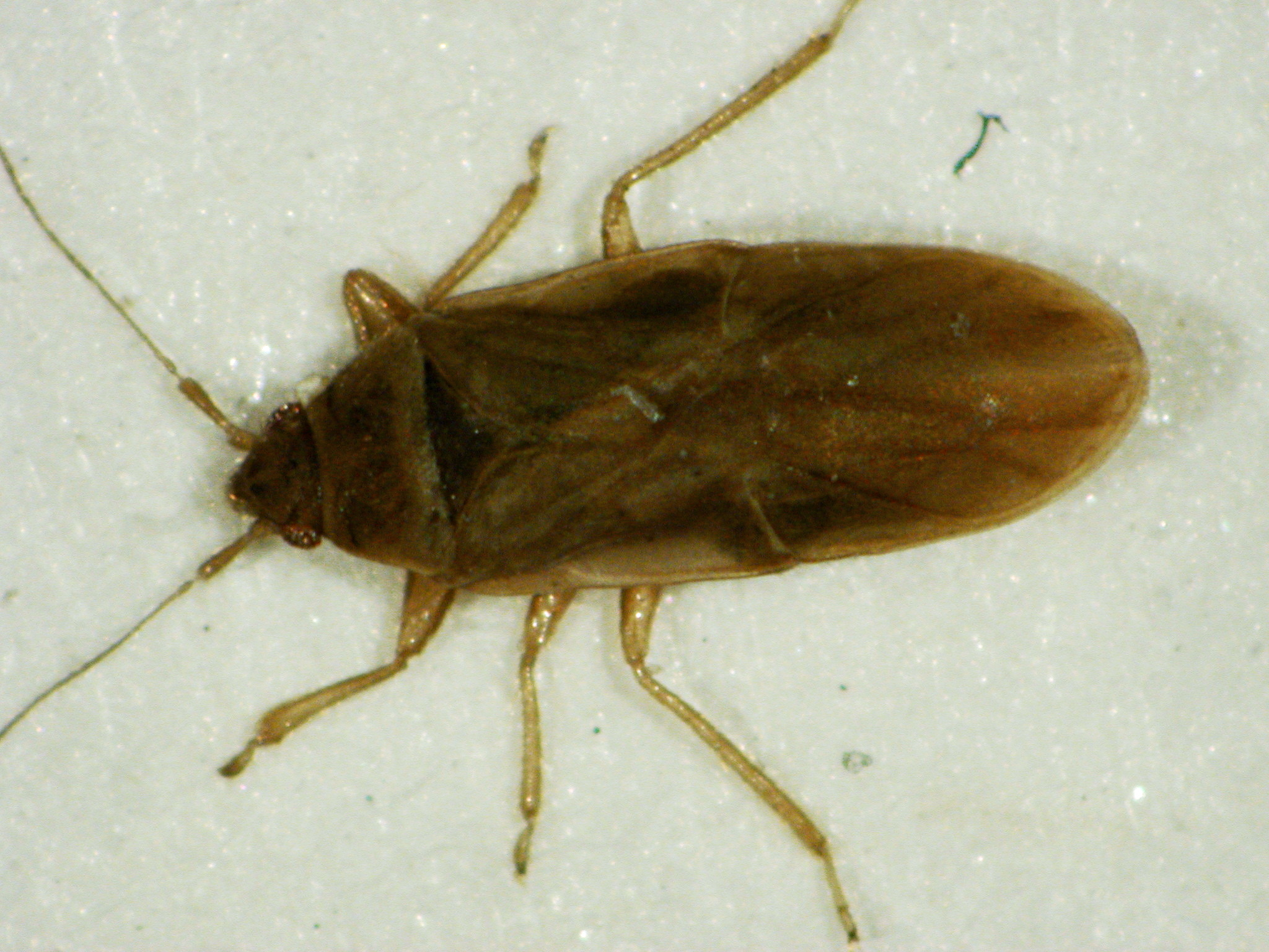 Fotografiert in der Zoologischen Staatssammlung München